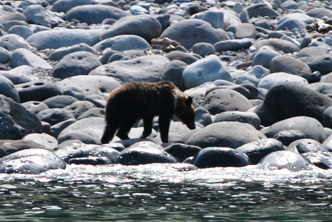 Wild bear at Shiretoko